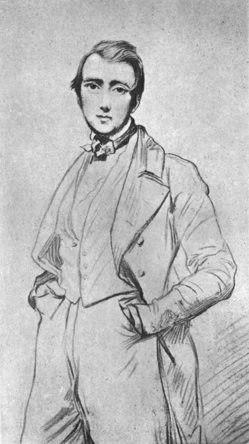 Drawing Alexander von Villers by Henri Lehmann